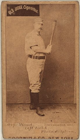 Old Judge (N172) baseball card for George Wood